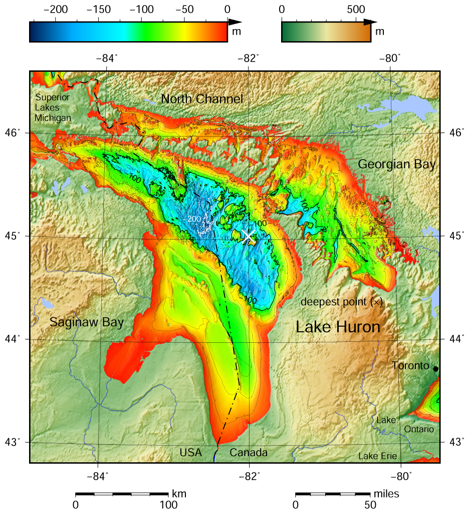 Lake Huron bathymetric shaded relief map contoured with interval 25 m (100 m with thicker lines). The deepest point is marked with "×". For land the vertical datum is sea level, for bathymetry low water datum of the lake. The map was created using the Generic Mapping Tools, GMT, version 5.1.1.